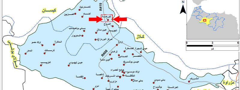 taourda map